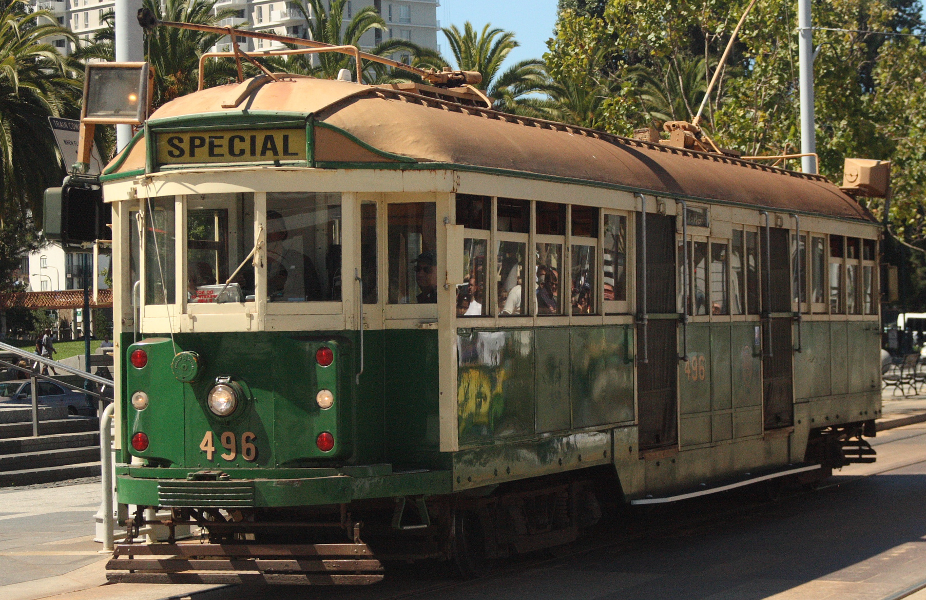 San Francisco ex-Melbourne streetcar 496